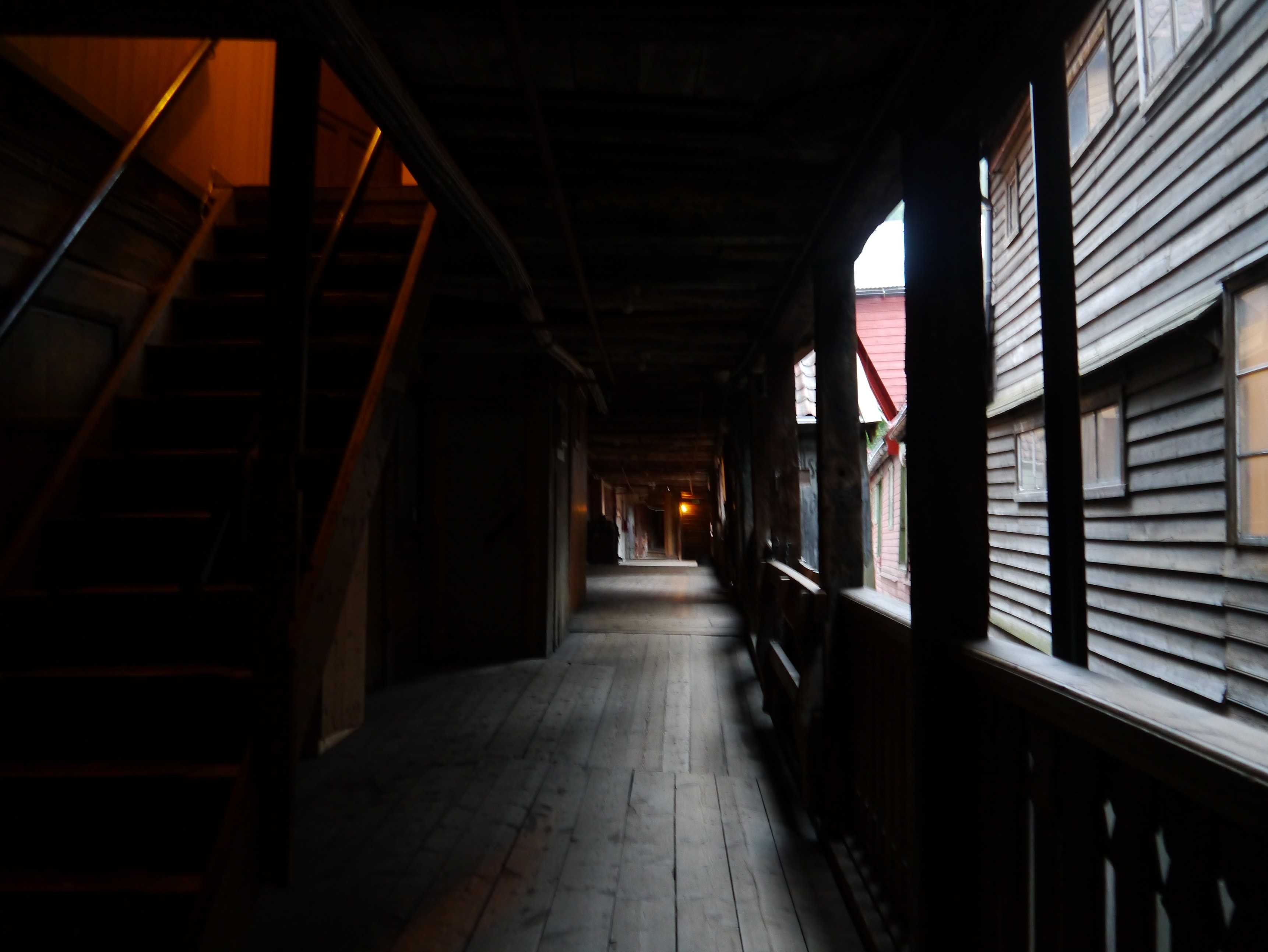 Bryggen Trading Quarter, Bergen, Hordaland County, Western Norway